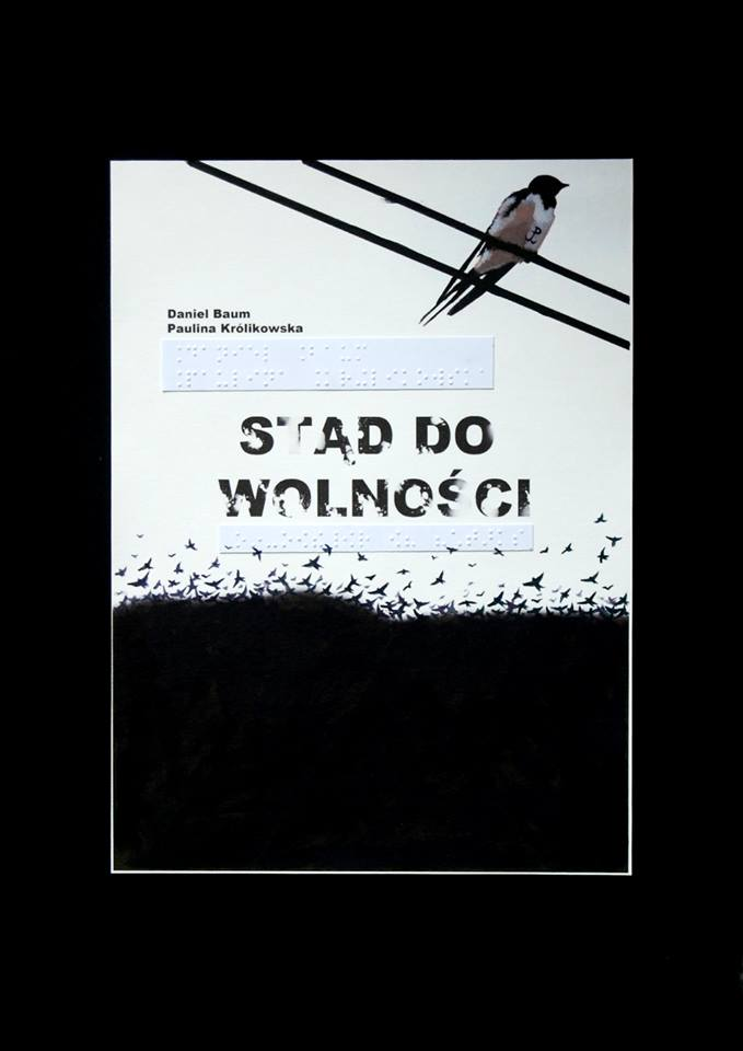 The Braille Comics